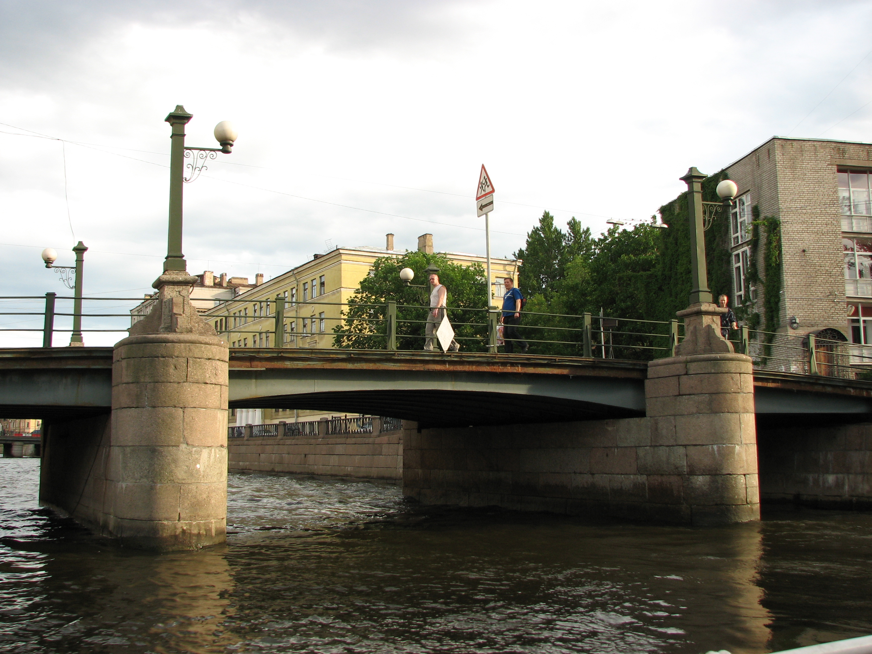 Saint Petersburg. The Matveev bridge across the Krjukov Canal.